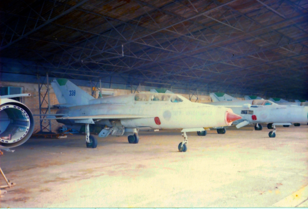 The boneyard at Antanarivo Photo: SHS